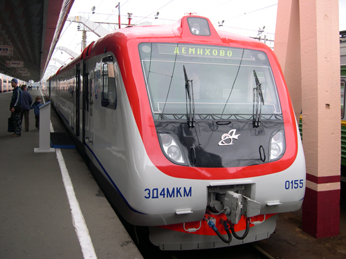 ED4MKM train in Russia